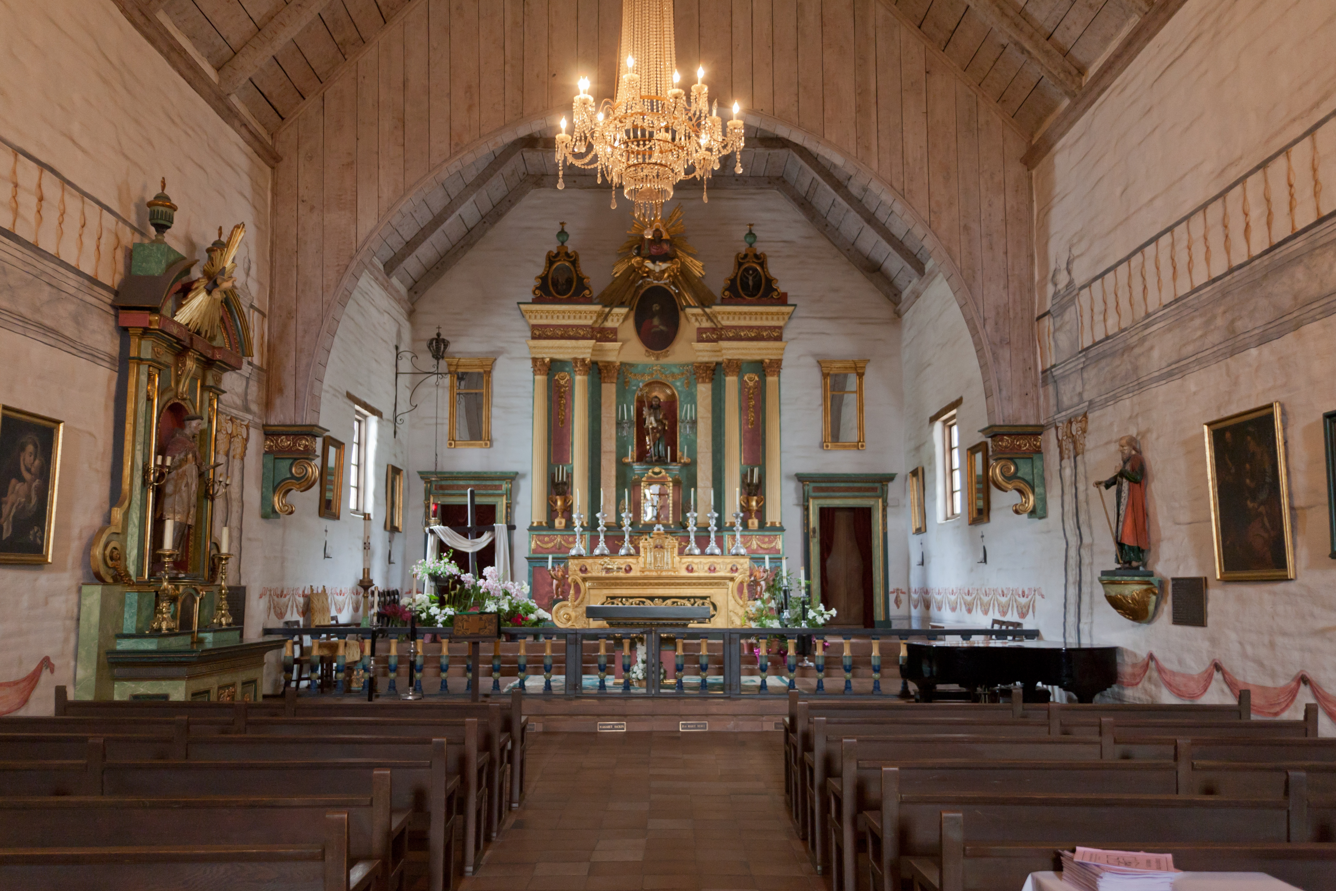 The interior of Mission San José in Fremont, California.